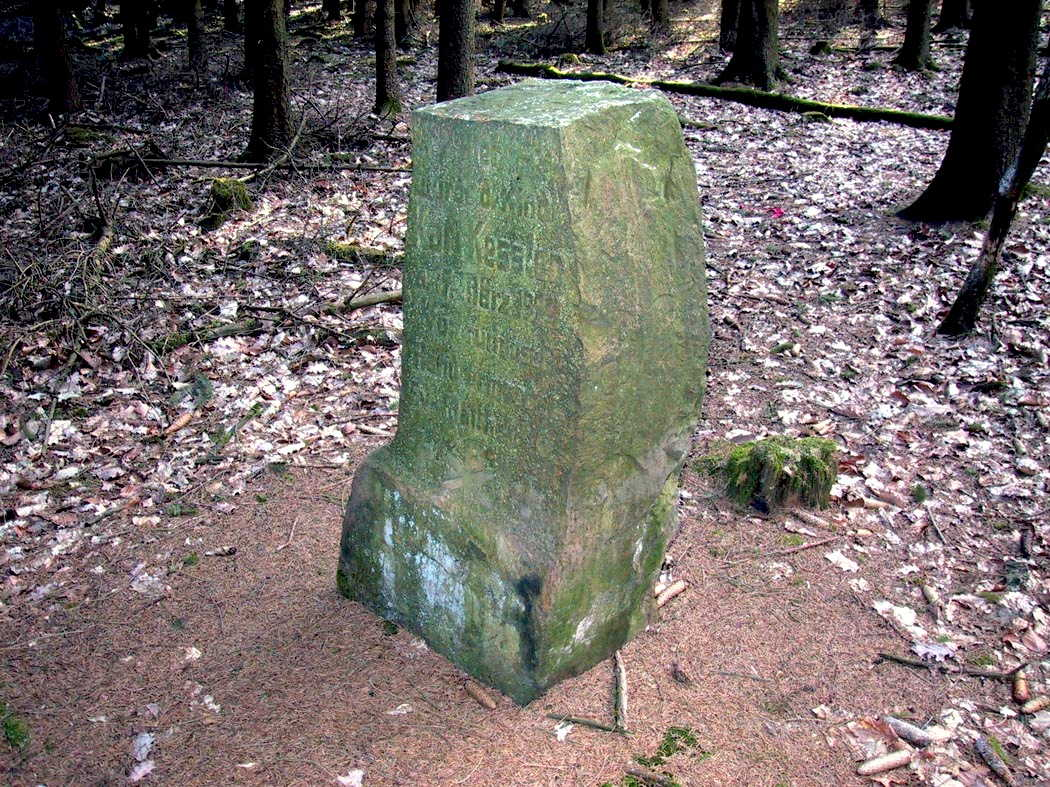 antisemitic memorial in Manau, Germany. A child was murdered and propaganda delivered a story about jewish ritual murder